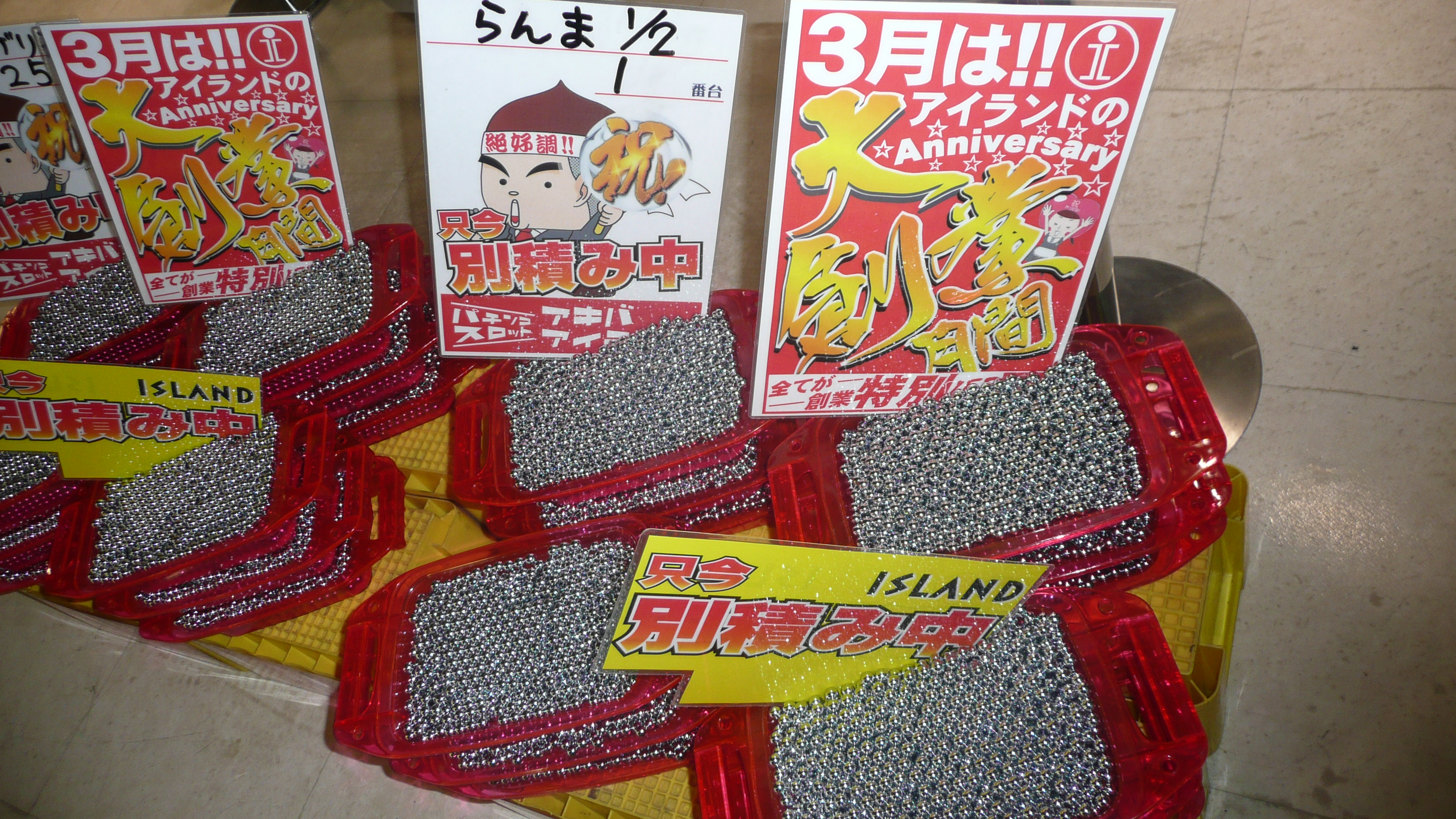 Pachinko metal balls in Tokyo, Japan